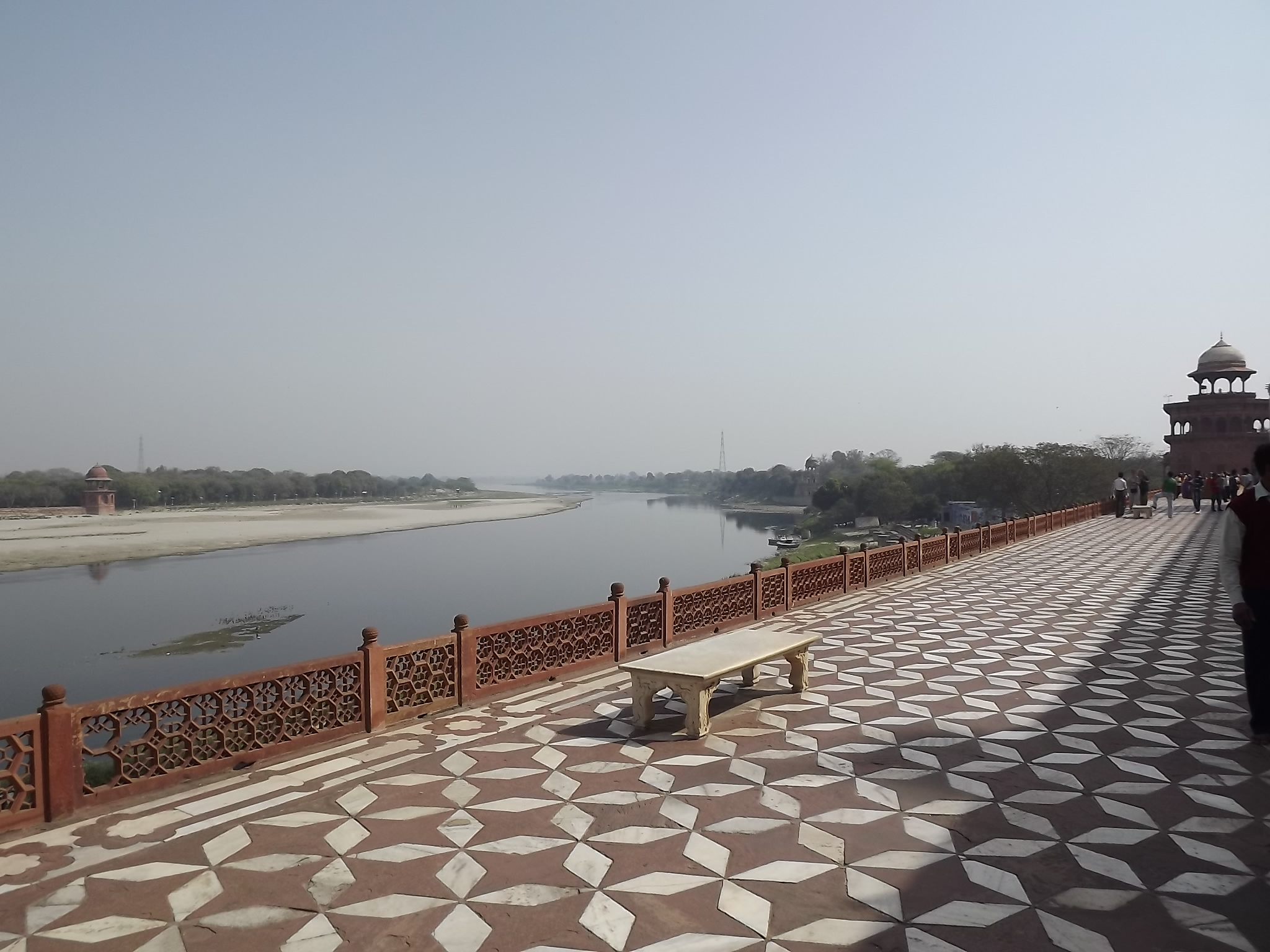 Taj Mahal